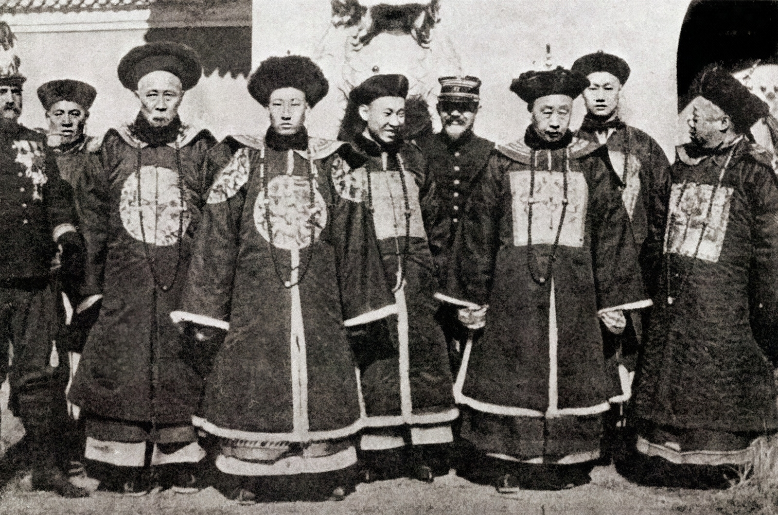 It is always said that Guangxu Emperor is fourth from left with his officials and European officers shortly after the Boxer Rebellion. However, according to their costumes,it is in winter, the fourth from left is a prince (親王), not Guangxu Emperor, and the third from left is not a prince, but lower than prince.